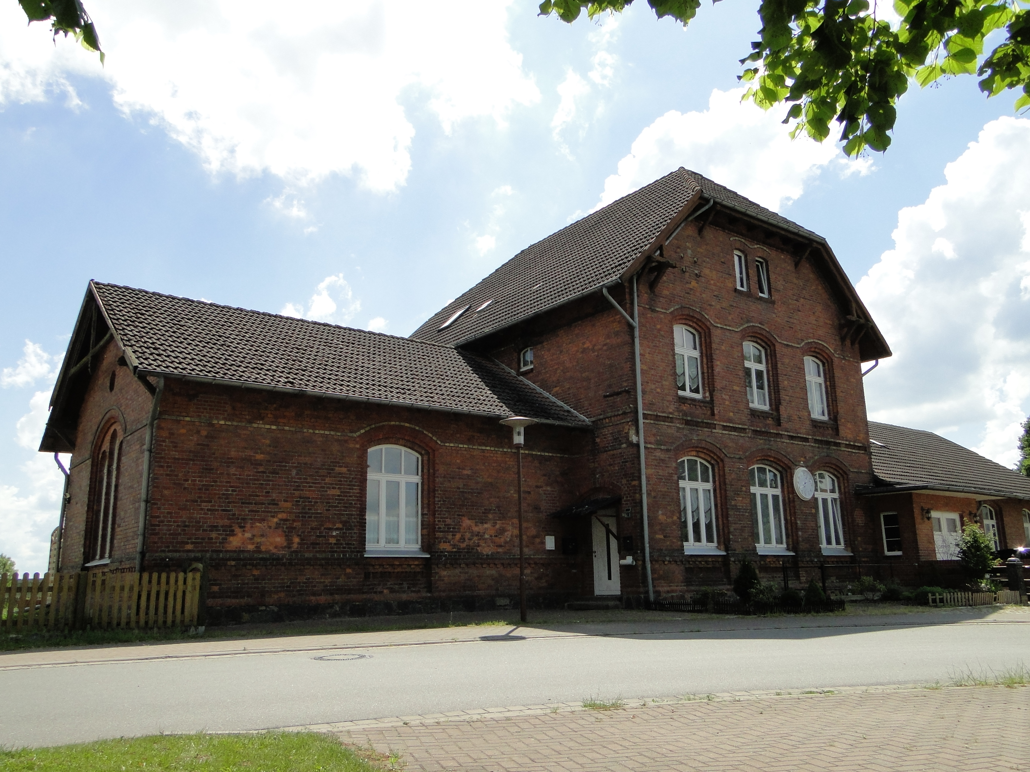 Former train station building in Tribsees, district Vorpommern-Rügen, Mecklenburg-Vorpommern, Germany